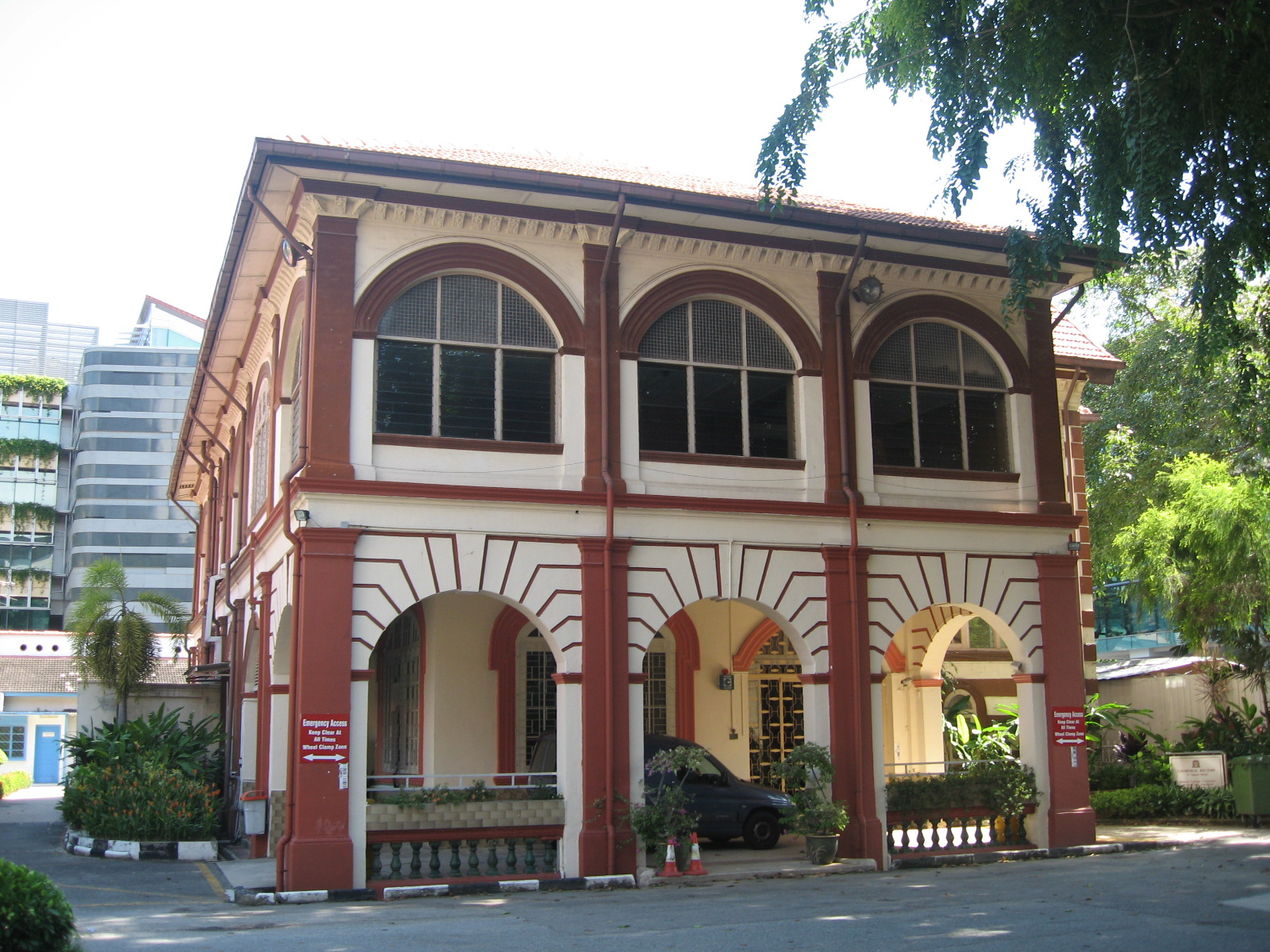 Cathedral of the Good Shepherd.